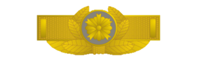 Brooch rank insigna for senior superintendent of japanese police